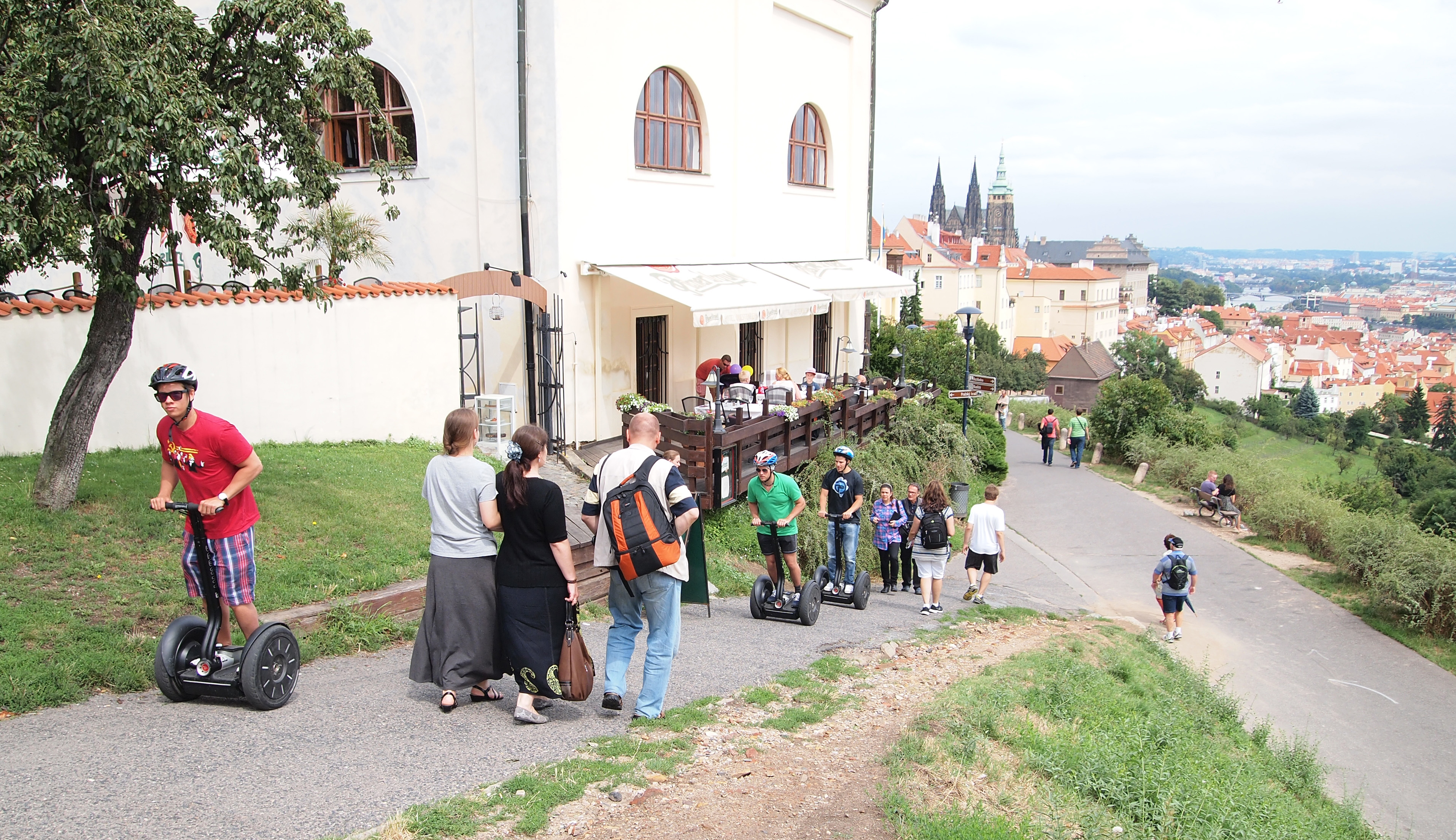 Segways and walkers in Prague. This photograph was taken with an Olympus E-PL1